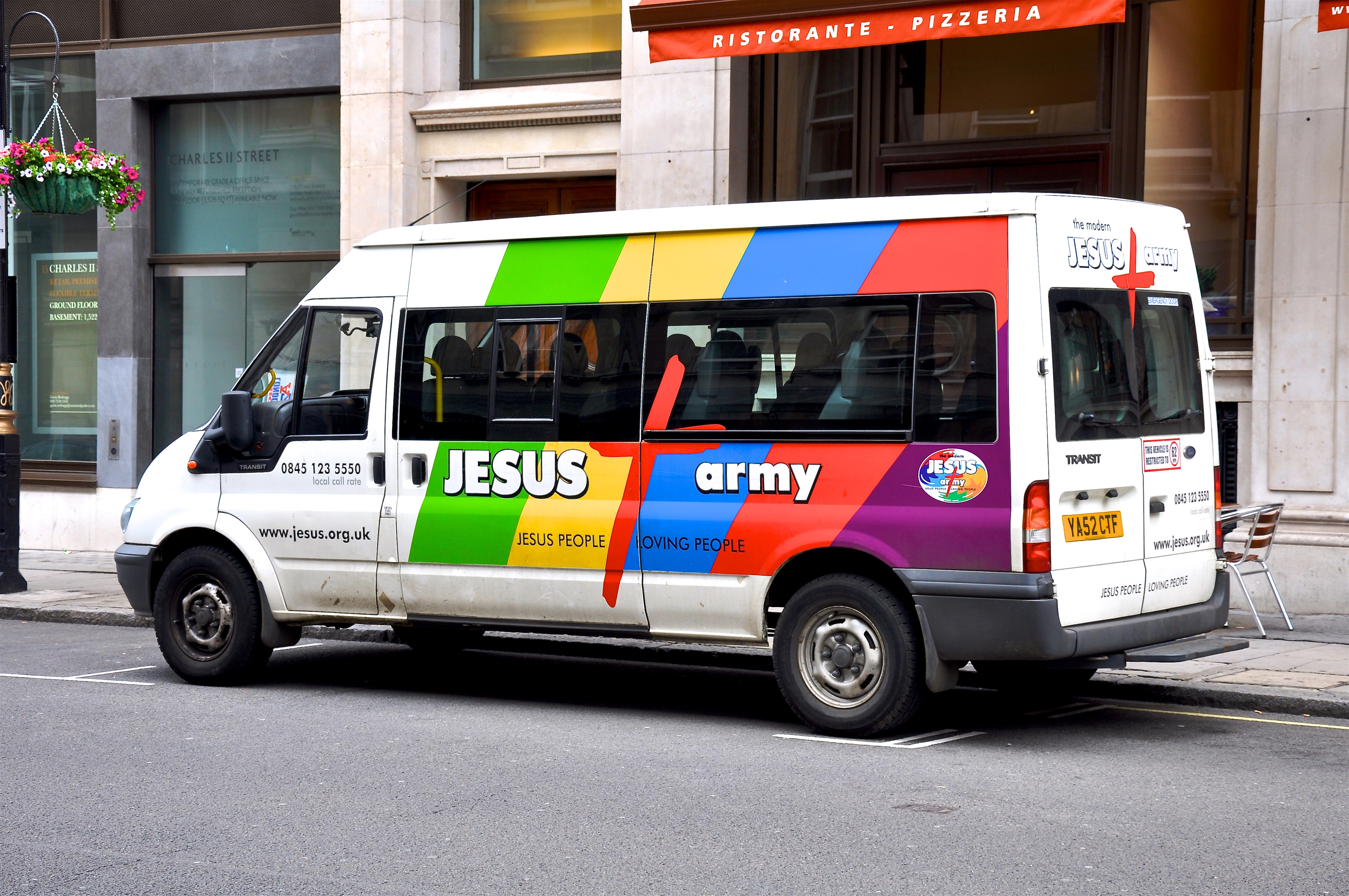 The Jesus Army Uses Ford Transits!